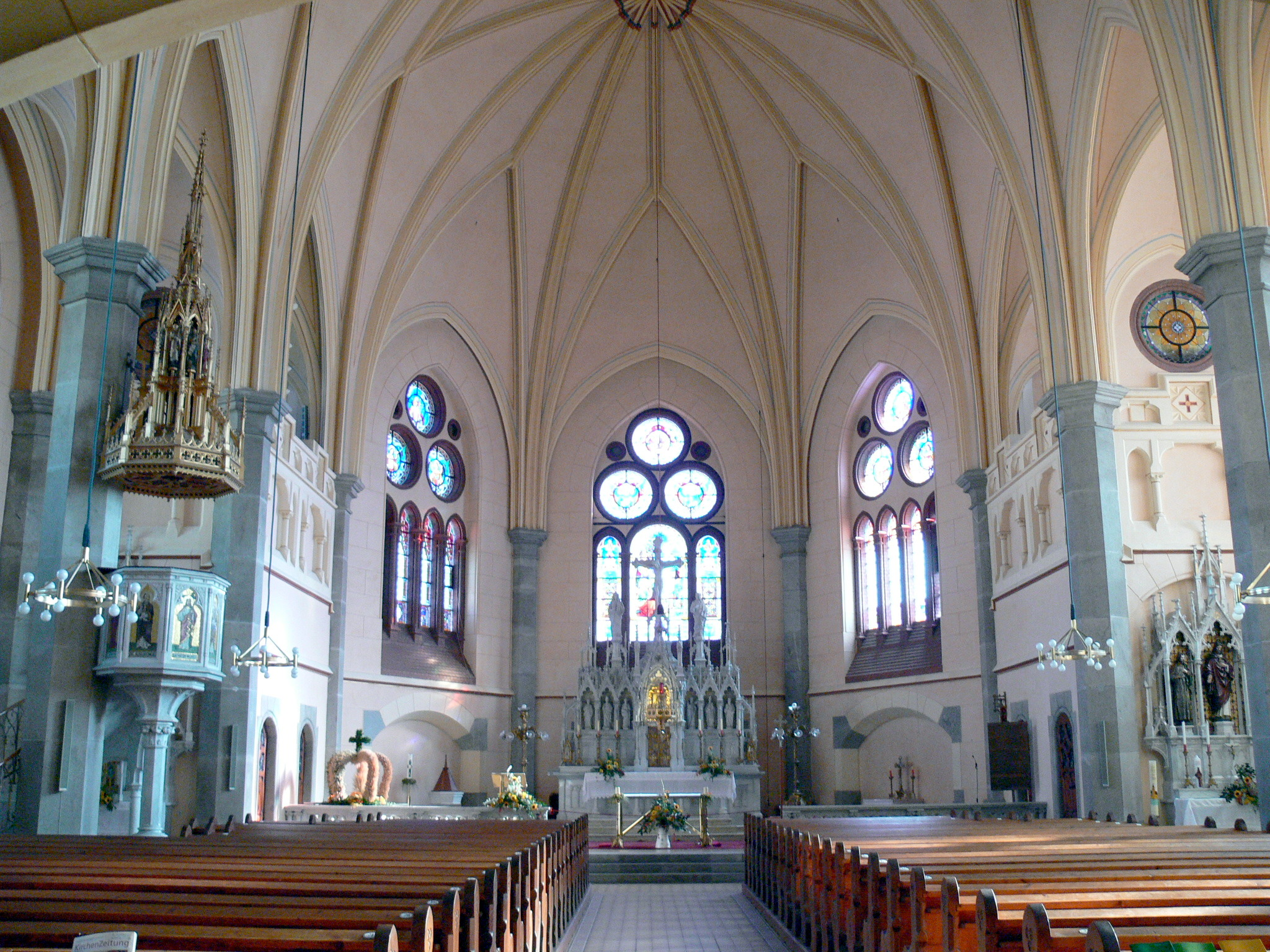 Aigen parish church: Interior.